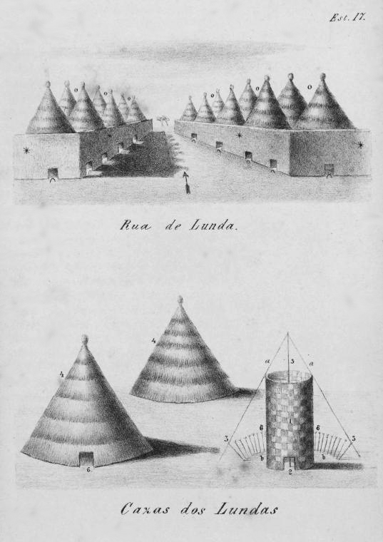 Lunda street and houses